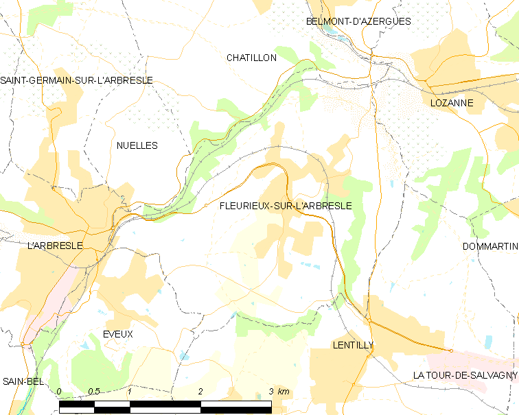 Map of French municipality